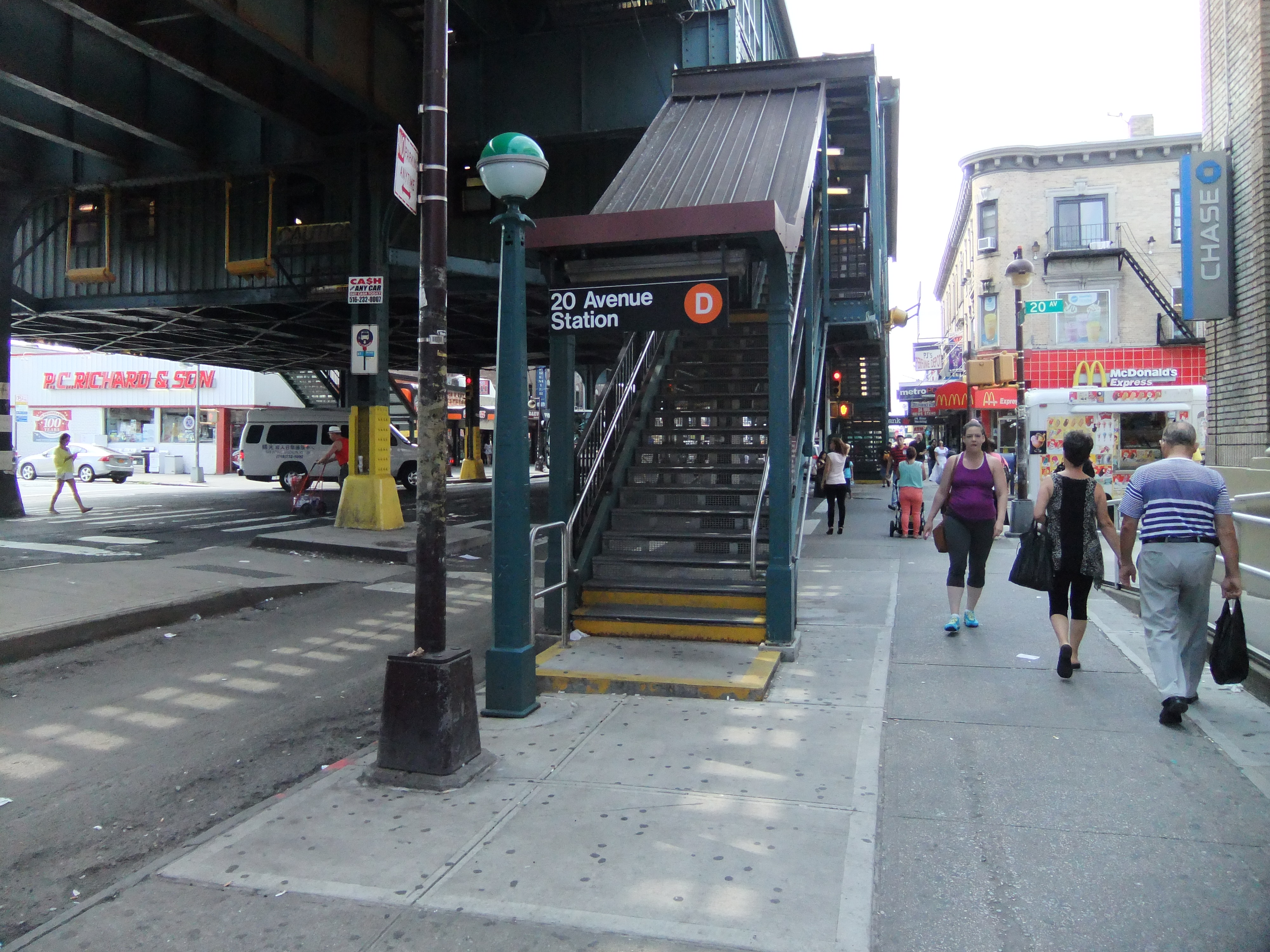 Northeastern stair at the 20th Avenue (West End) station.